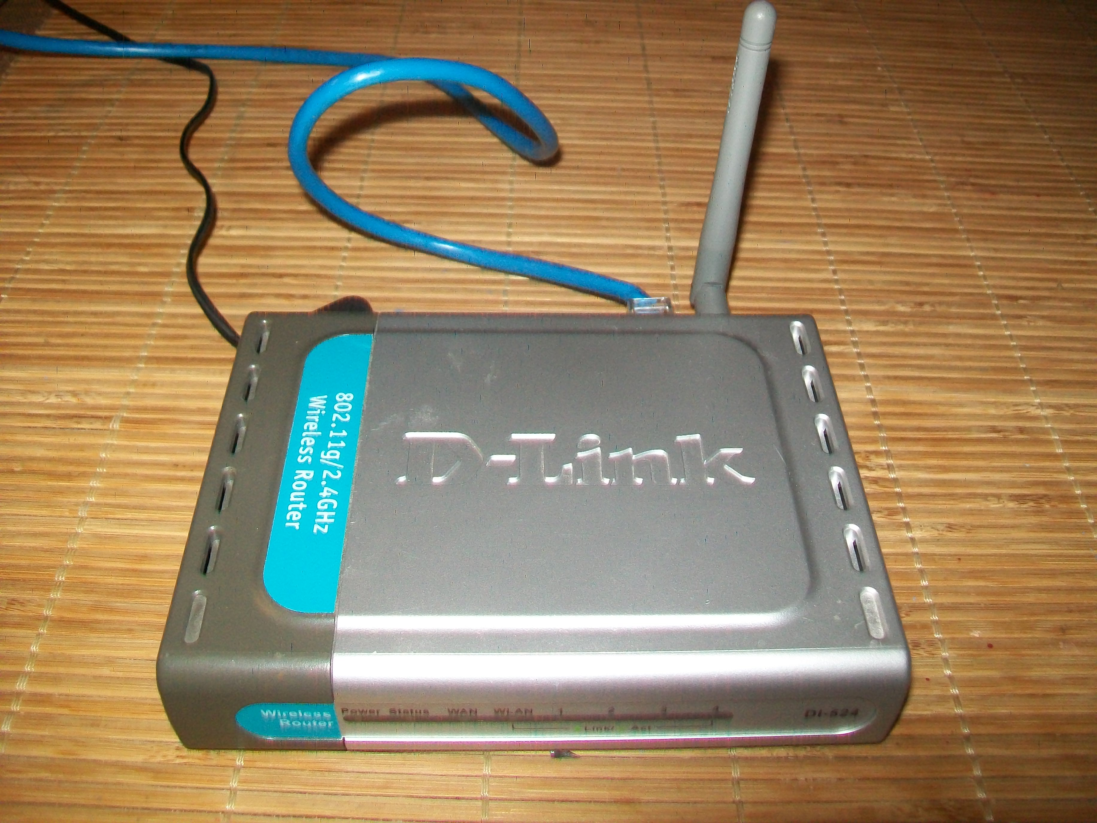 Router D-Link